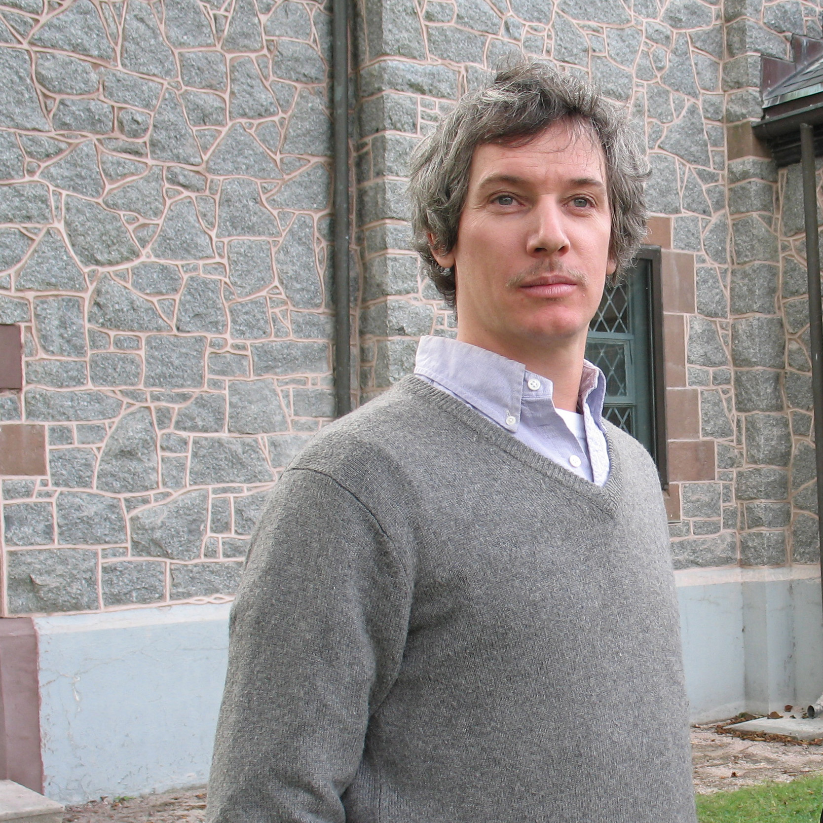 photograph of Michael Jackson (Canadian tv actor) b. Nov 8, 1970 taken Sept. 10, 2010